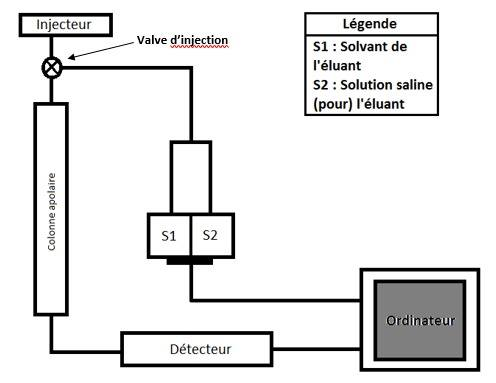 Montage théorique de la méthode